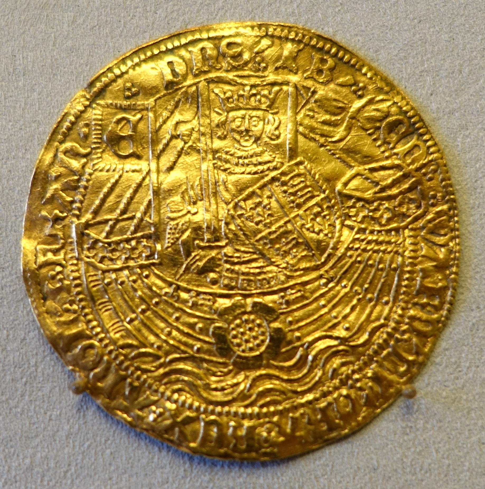 Exhibit in the Bode-Museum, Berlin, Germany. This work is in the public domain because the artist died more than 100 years ago.